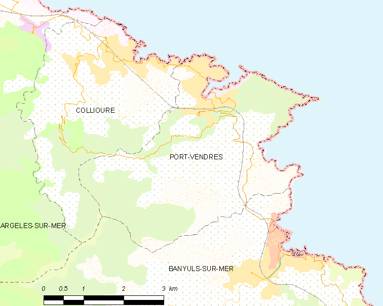 Map of French municipality